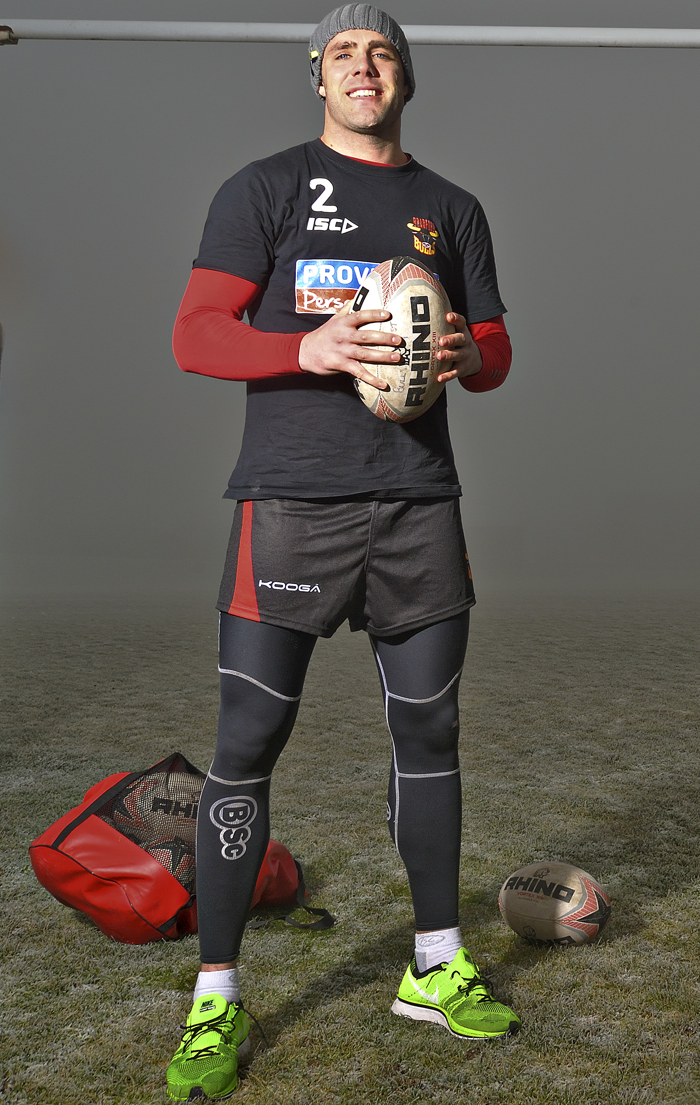 Adrian Purtell is an Aussie ex-NRL player who plays for the Bradford Bulls in the UK. Adrian had a serious heart attack last May, but has recovered well and has now been cleared to resume training with the Bradford Bulls this week. Adrian is photographed at the Bradford Bulls Training HQ, Yorkshire.